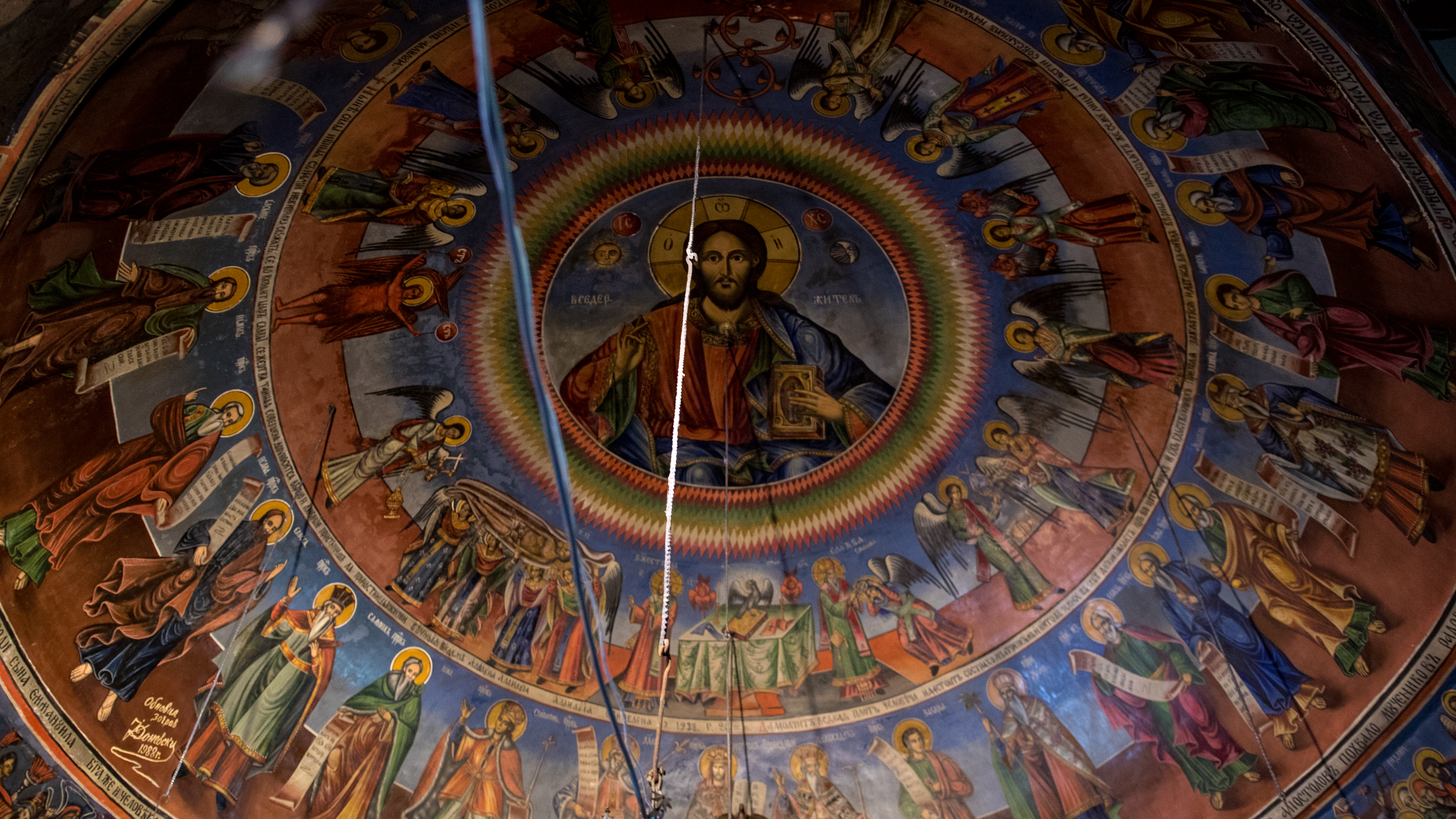 Interior of the Dormition of the Theotokos Church in Gari